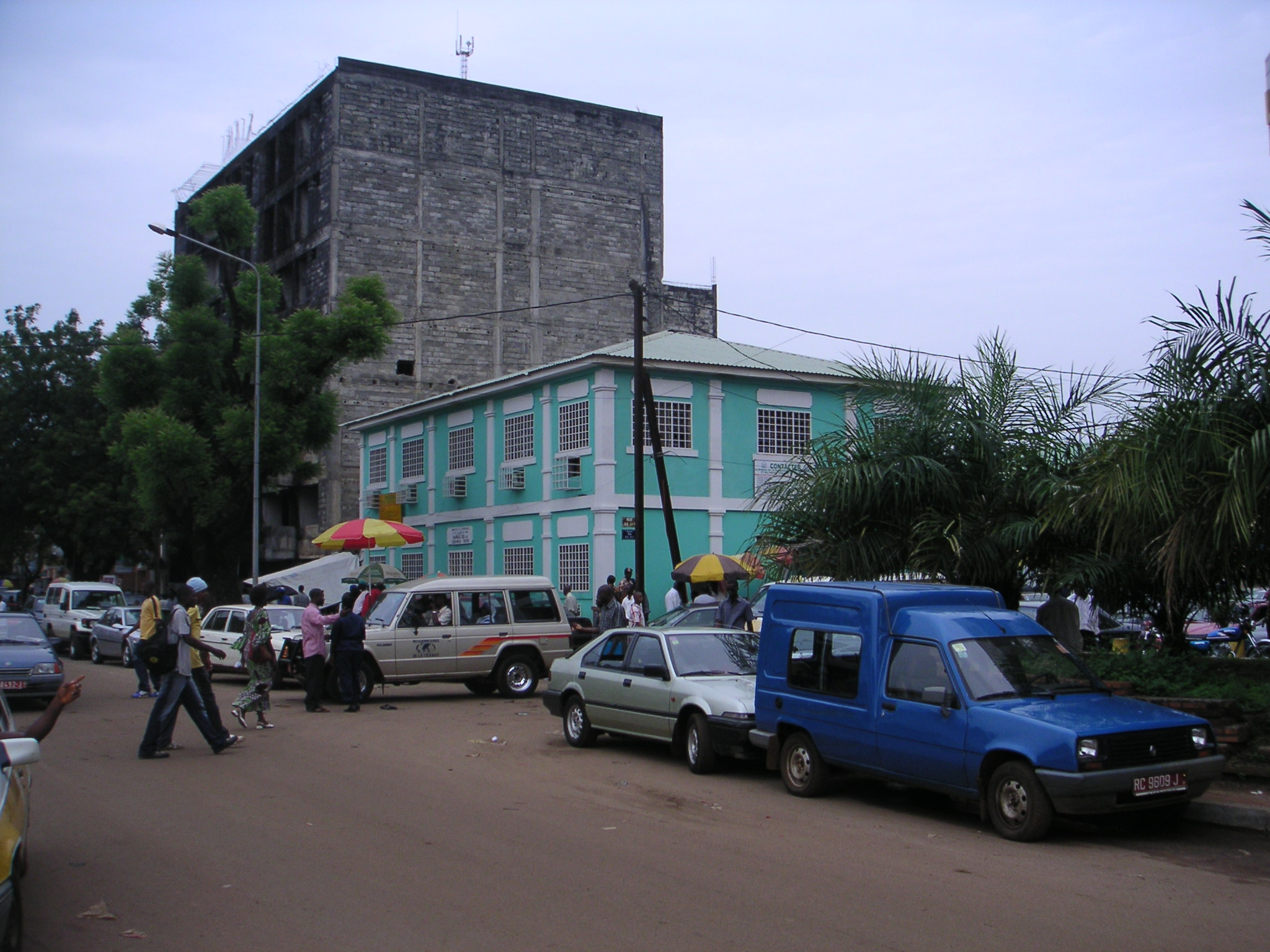 Conakry, Guinea. Photo: Soman